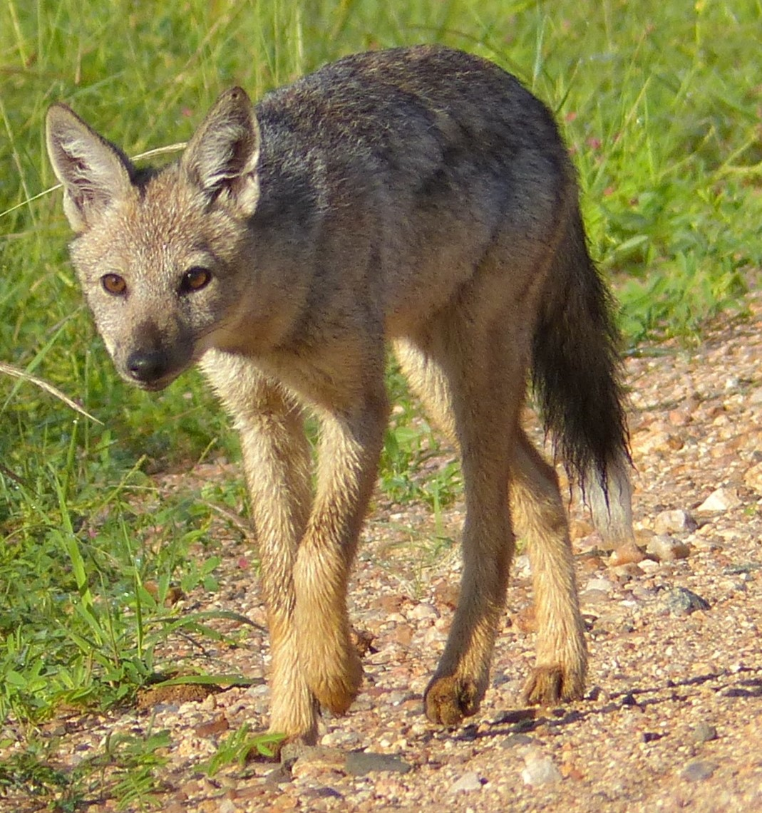 S131 Road West of Letaba, Kruger NP, SOUTH AFRICA